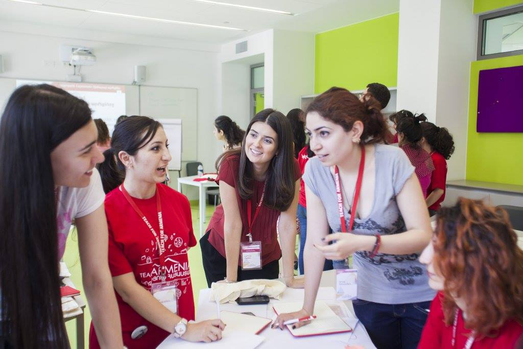 Hovannisian in June 2016 Depicted person: Larisa Hovannisian – Armenian American social entrepreneur and education activist